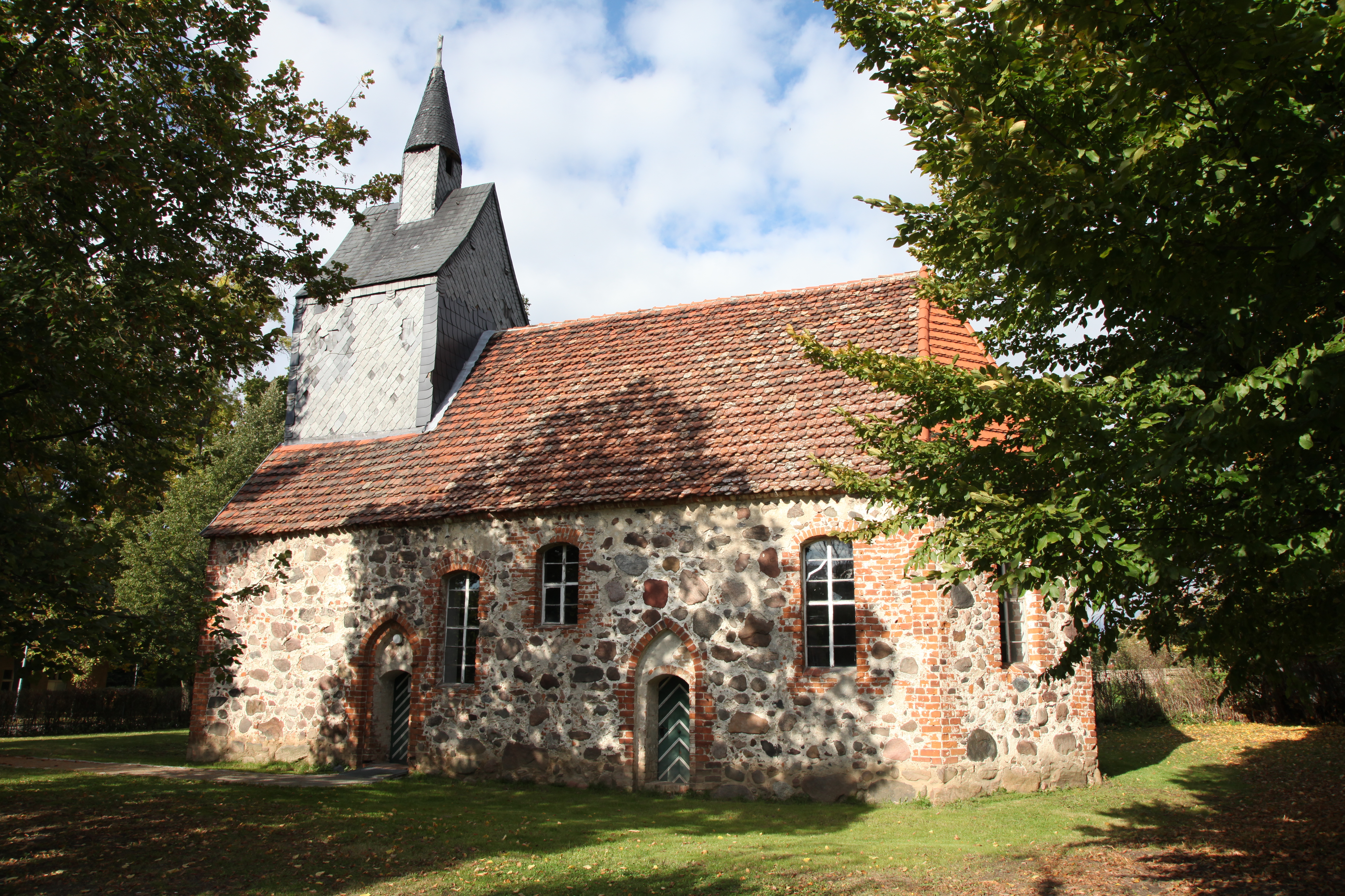 Gnewikow church, Neuruppin city, Ostprignitz-Ruppin district, Brandenburg state, Germany